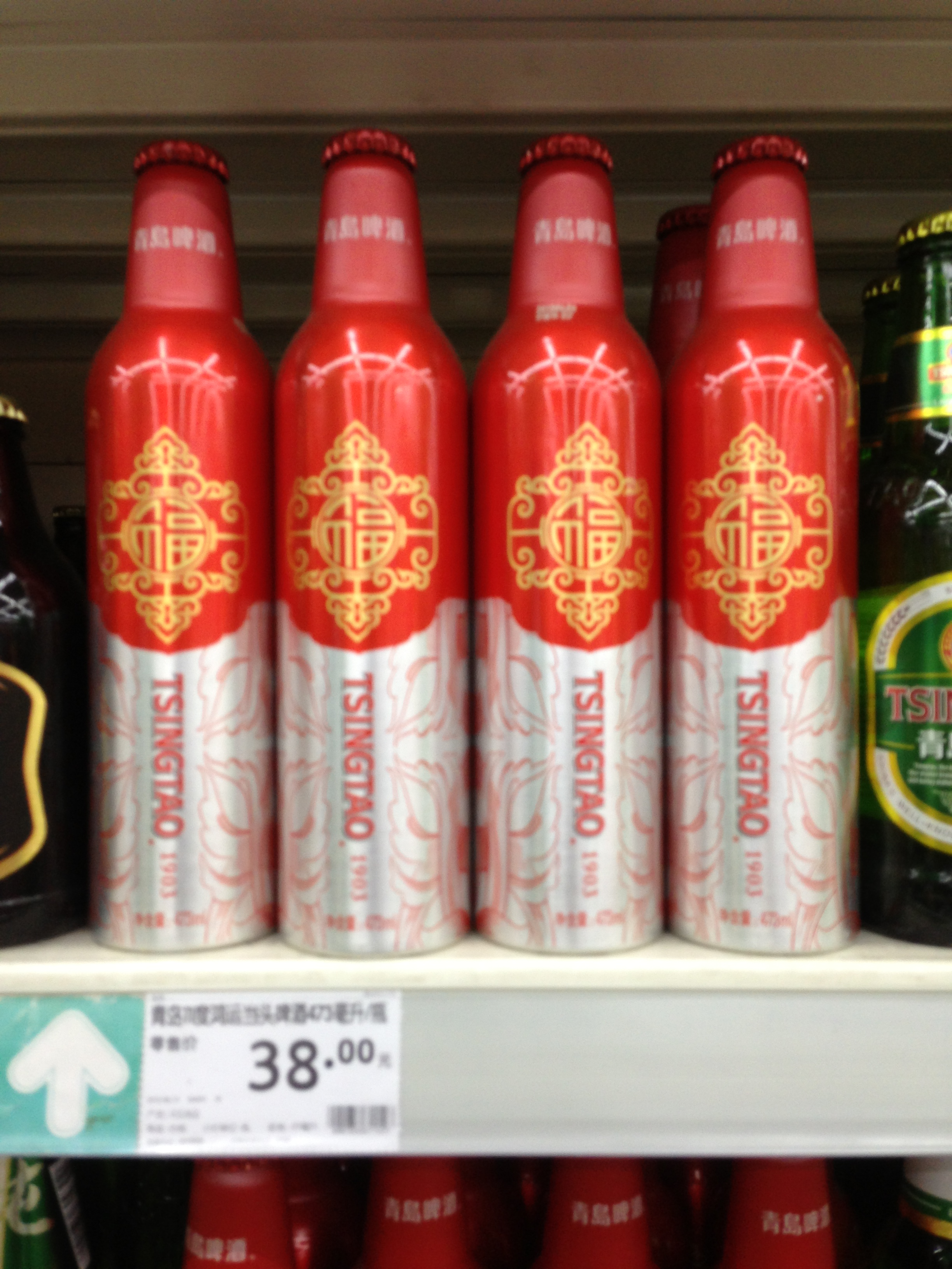 Tsingtao bottle commemorative for the 110 years of the brewery